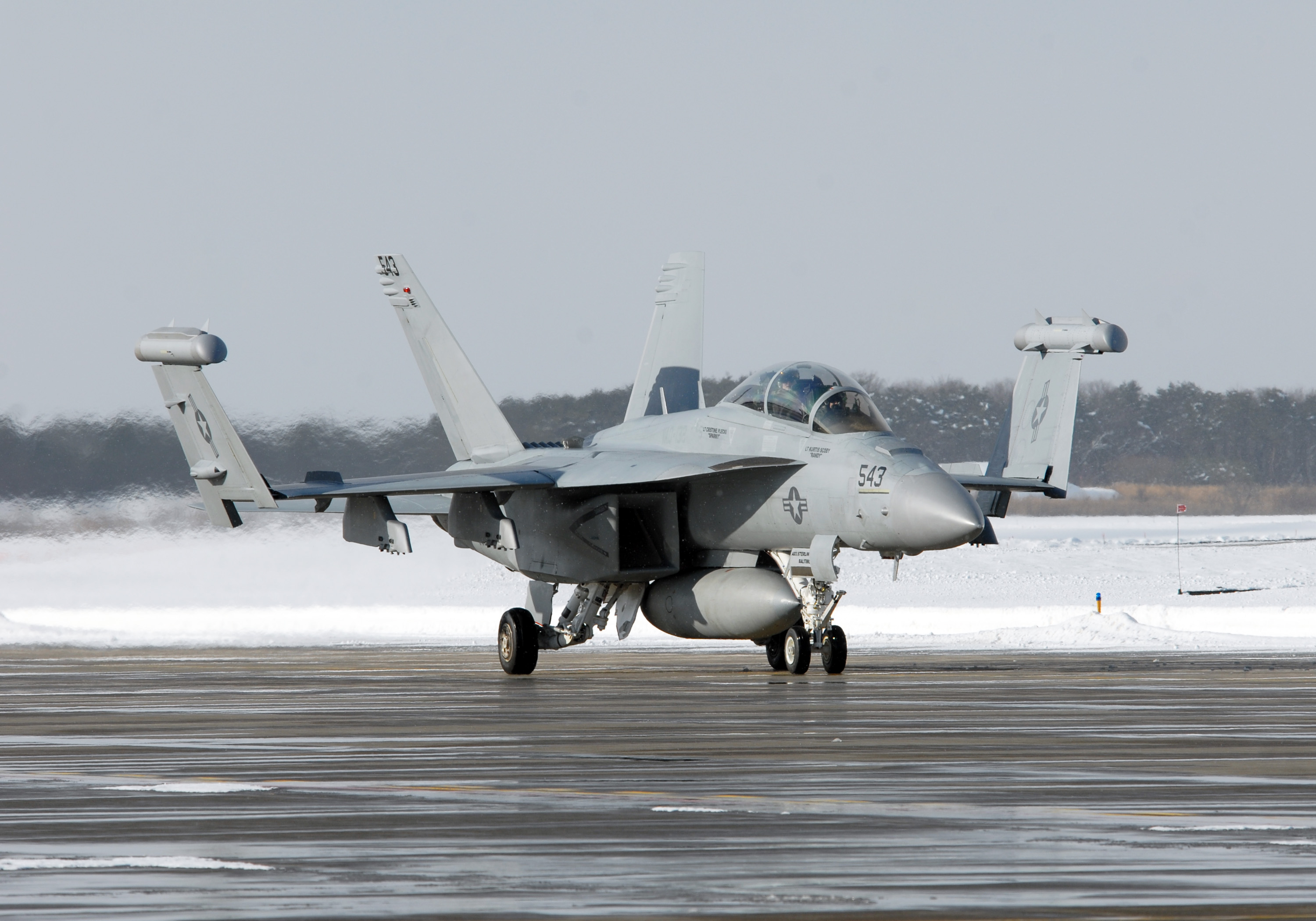 MISAWA AIR FACILITY MISAWA, Japan (Jan. 7, 2013) An EA-18G Growler from Electronic Attack Squadron (VAQ) 132 returns from a mission and taxis on the Naval Air Facility Misawa flight line. VAQ-132 is deployed to northern Japan supporting U.S. 7th Fleet. (U.S. Navy photo by Mass Communication Specialist 1st Class Alfredo Rosado/Released) 130107-N-ZV190-006